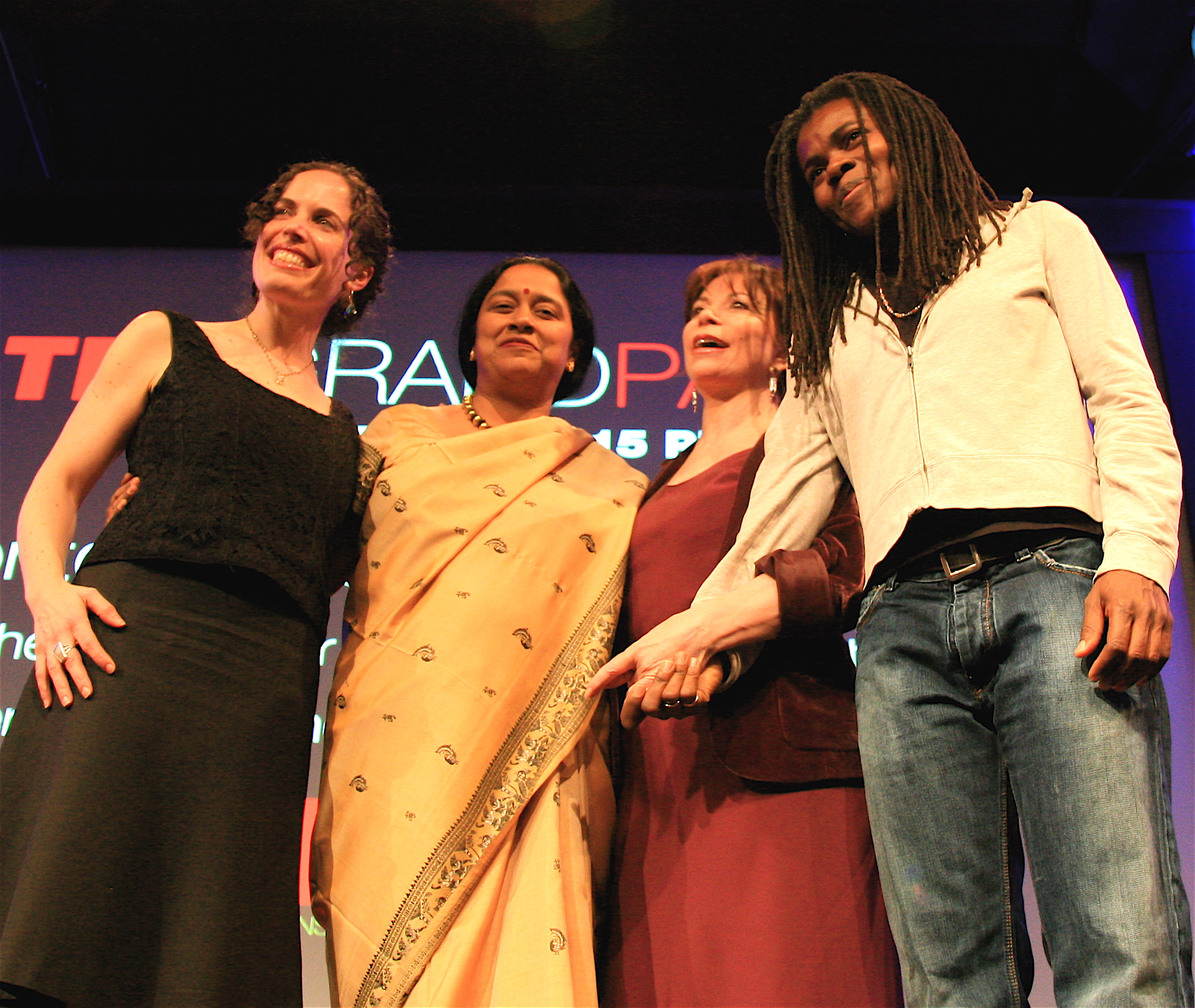 “We need to nurture the feminine energy in women, and men… the young men. The old men are hopeless. We have to wait for them to die off.” -- Isabel Allende, Chilean Novelist (in red). Women in the photograph (L to R) Susan Cohen, Lakshmi Pratury, Isabel Allende and Tracy Chapman